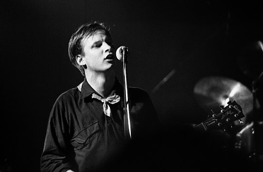 Music Hall. Toronto, 2/2/80 Andy Partridge of the band XTC